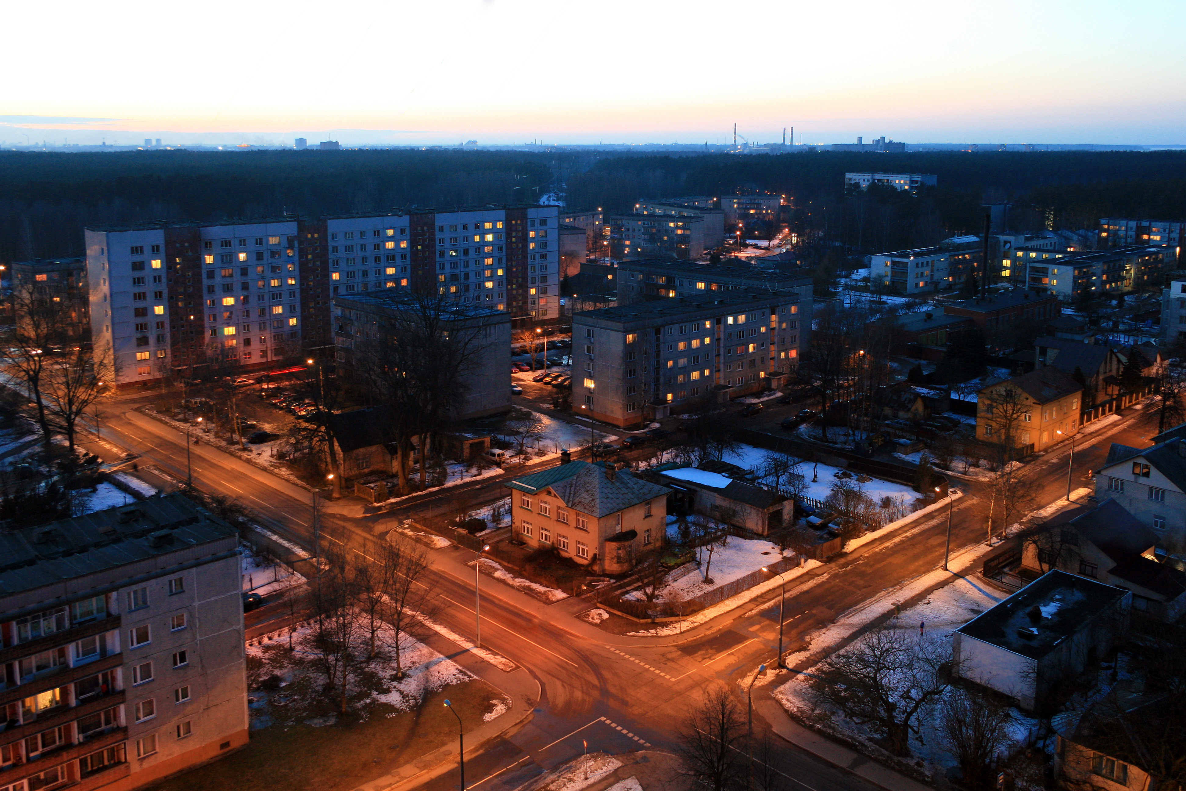 Skyline of the Mežciems neighbourhood Riga, Latvia. 2009